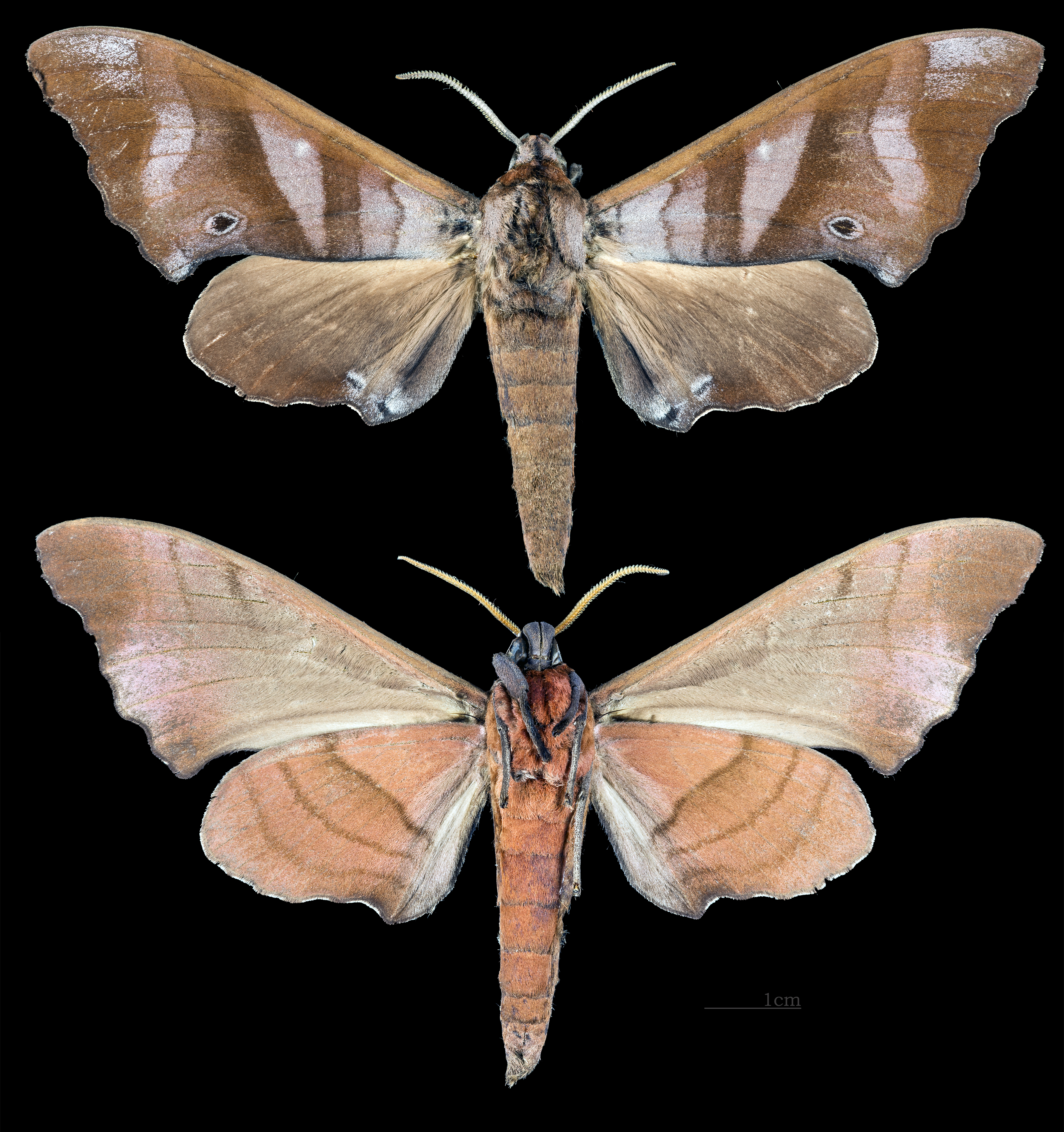 Marumba nympha - Two views of same specimen Collection of the Mathematician Laurent Schwartz